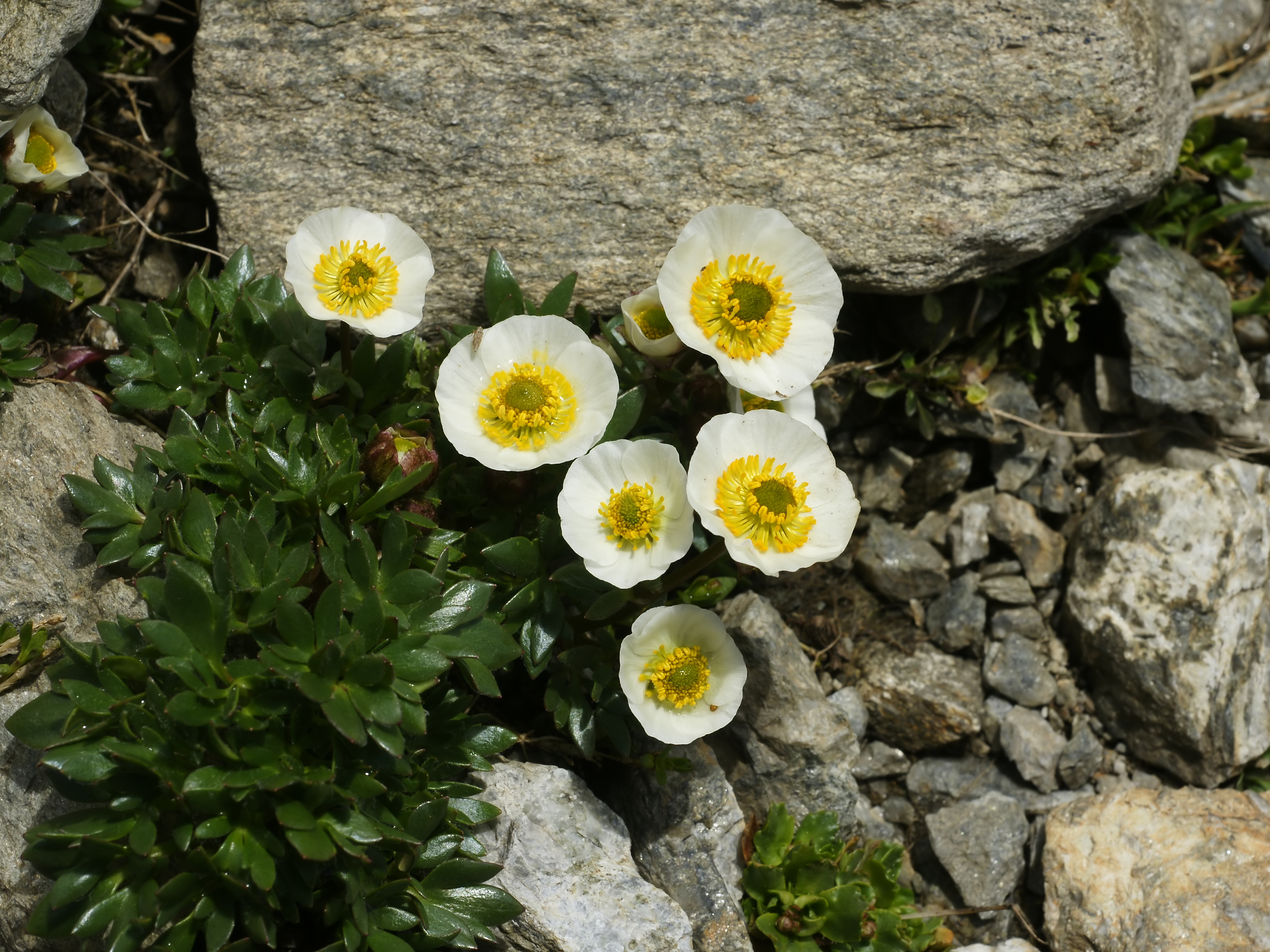 Glacier crowfoot at the Swiss/Italian border at the Grand Saint Bernard Pass.